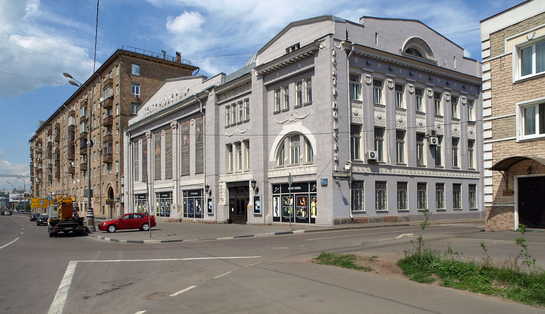 Theatre Moderne in Moscow. Built as the Grain Commodity Exchange in 1900s